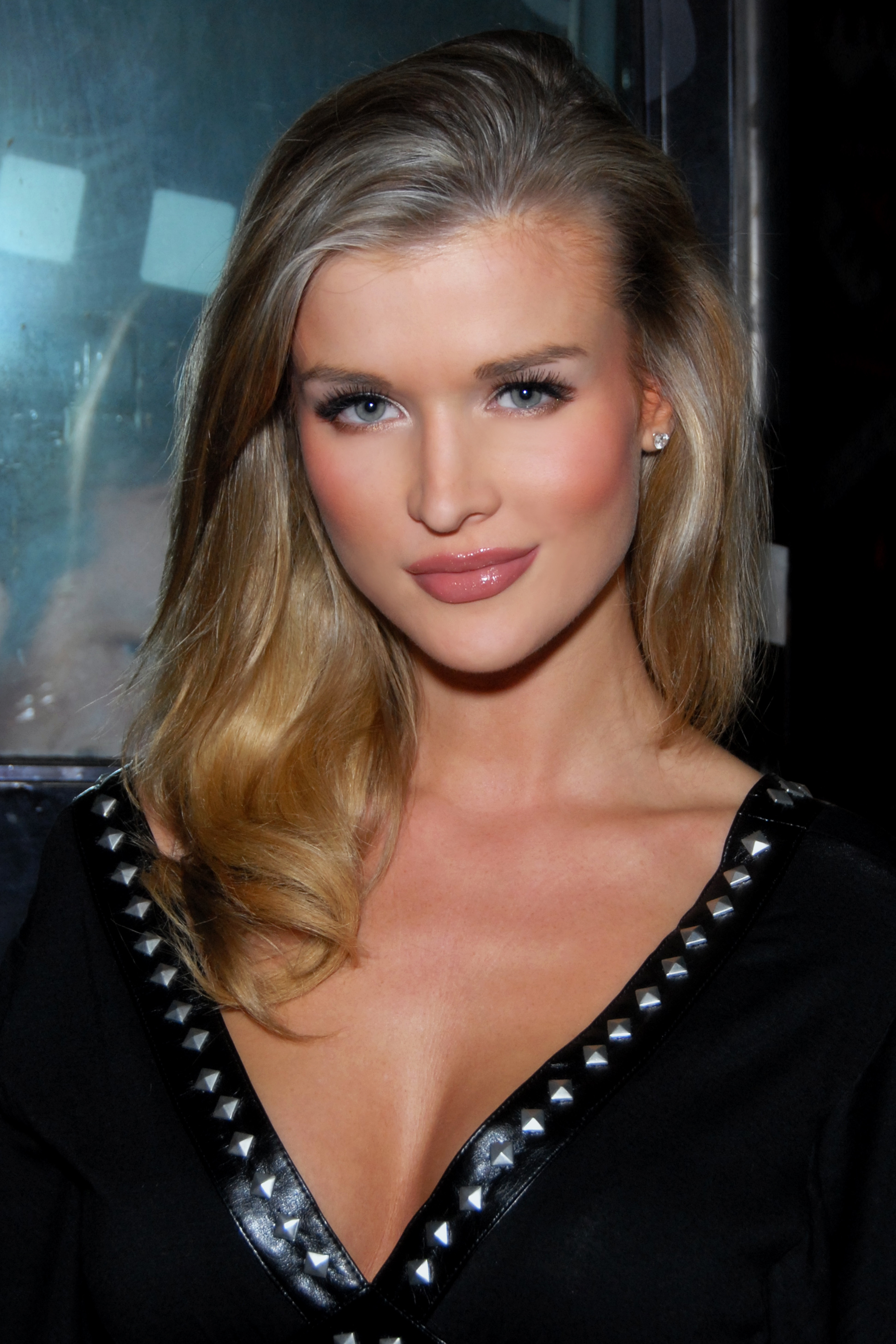 Joanna Krupa hosting the Bench Warmer International Holiday Party at "The Kress", Hollywood, CA on 12/09/2008 - Photo by Glenn Francis of